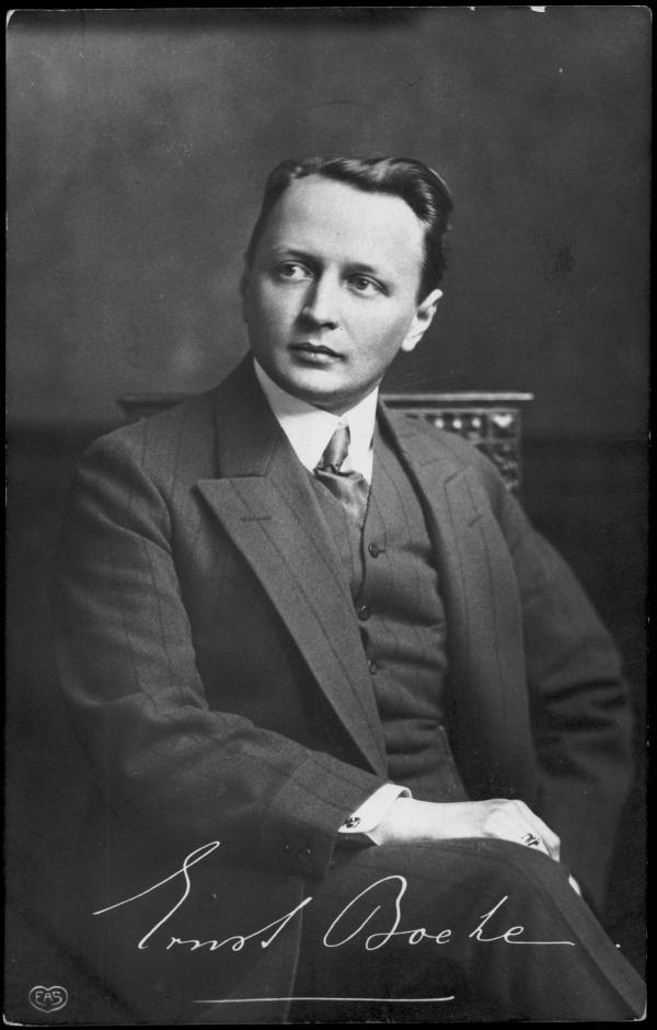 German dirigent and composer Ernst Boehe (1880-1938)